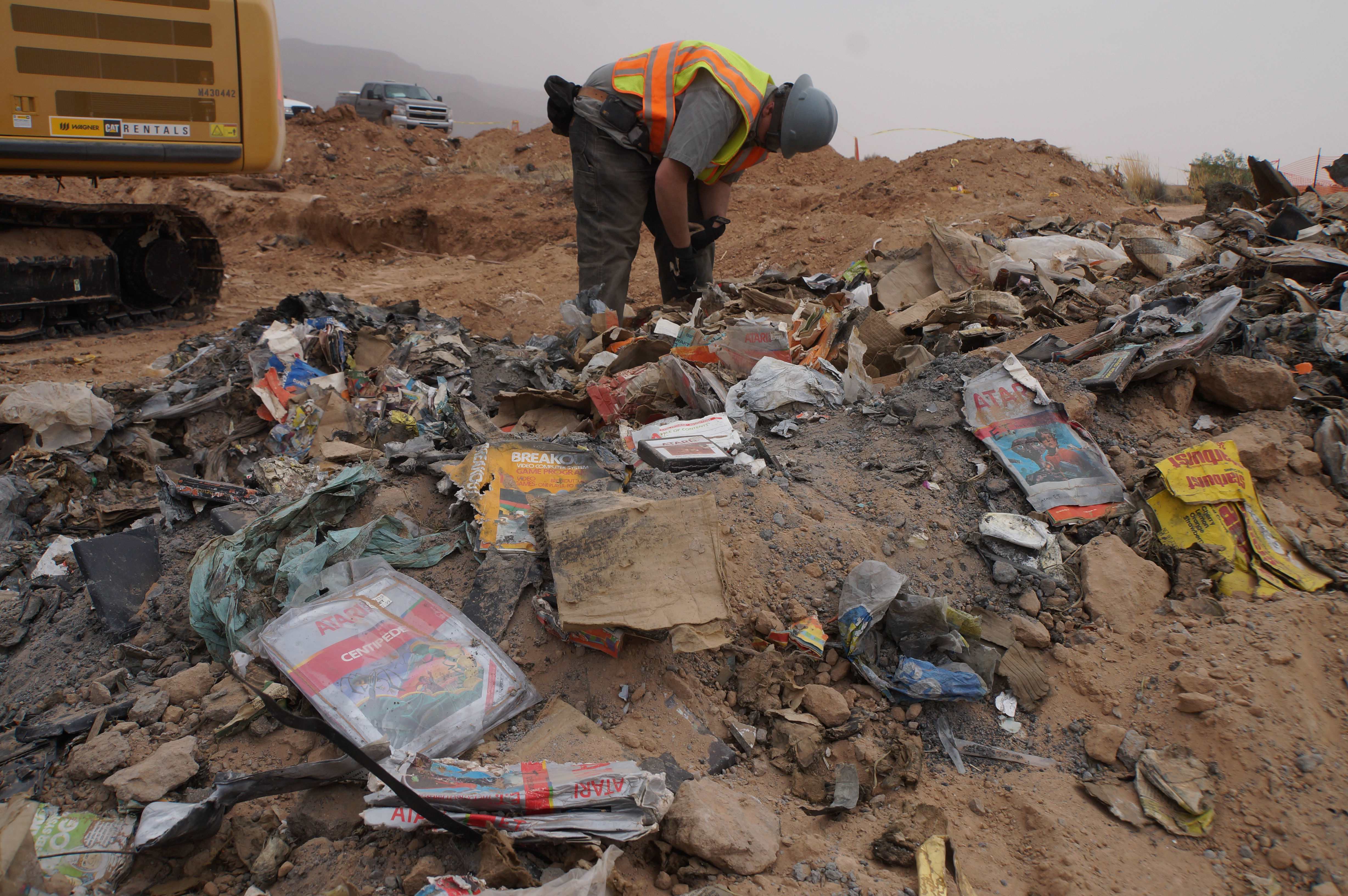 What Atari buried, beyond E.T.